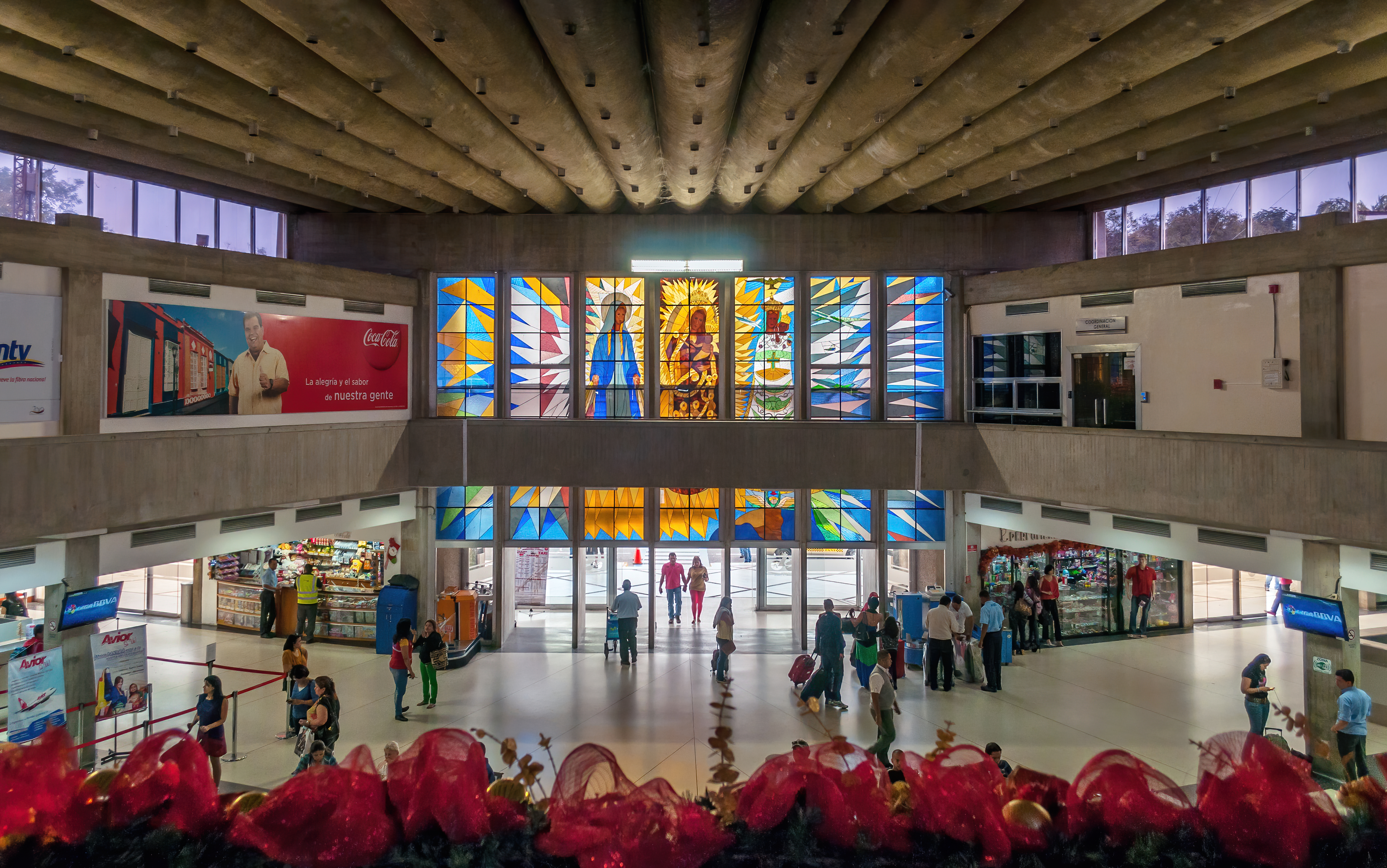 La Chinita International Airport, Venezuela (Interior)